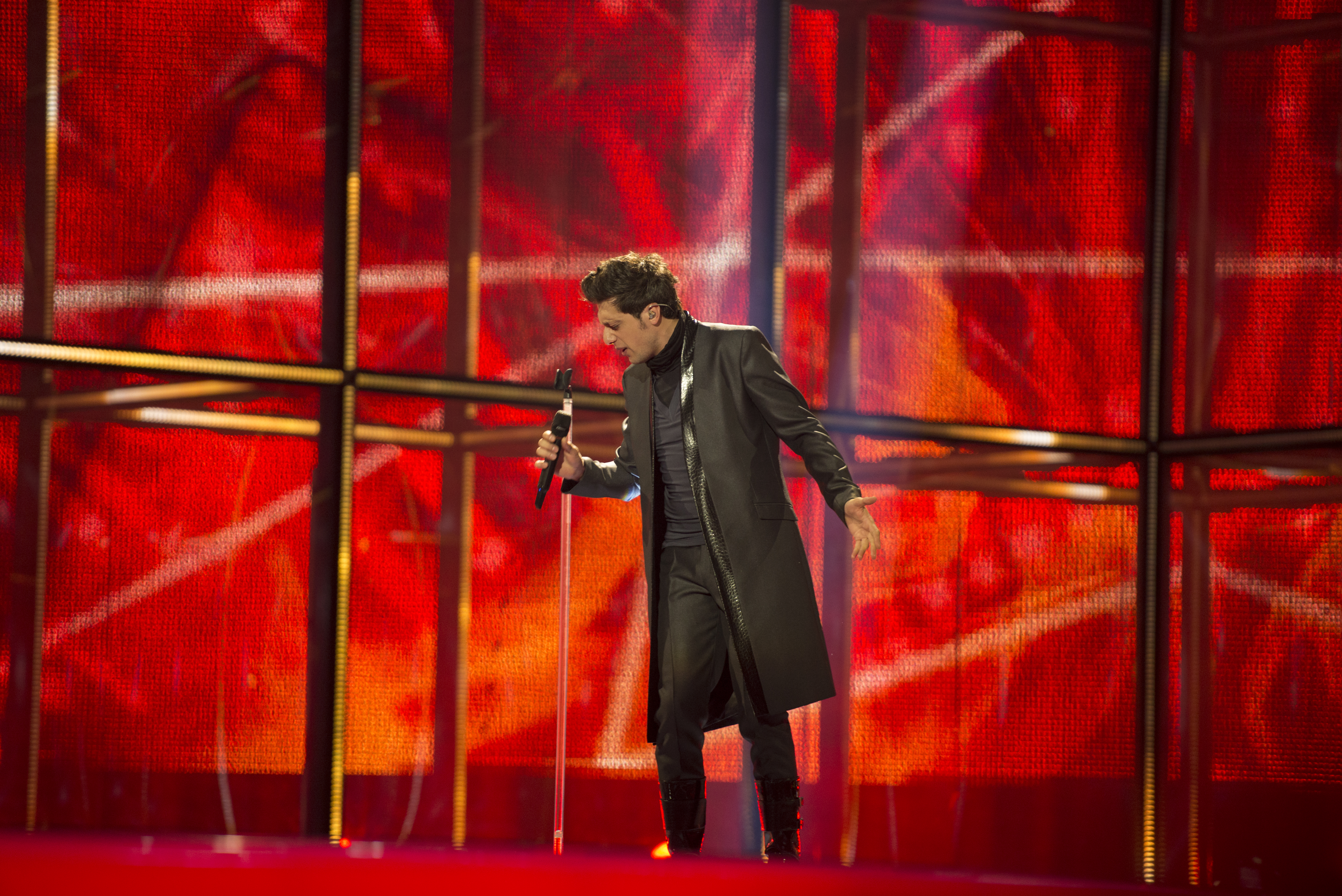 Aram Mp3 representing Armenia with the song "Not Alone" during the first dress rehearsal of the first semi final of the Eurovision Song Contest 2014 Copenhagen. (Help translate this text)